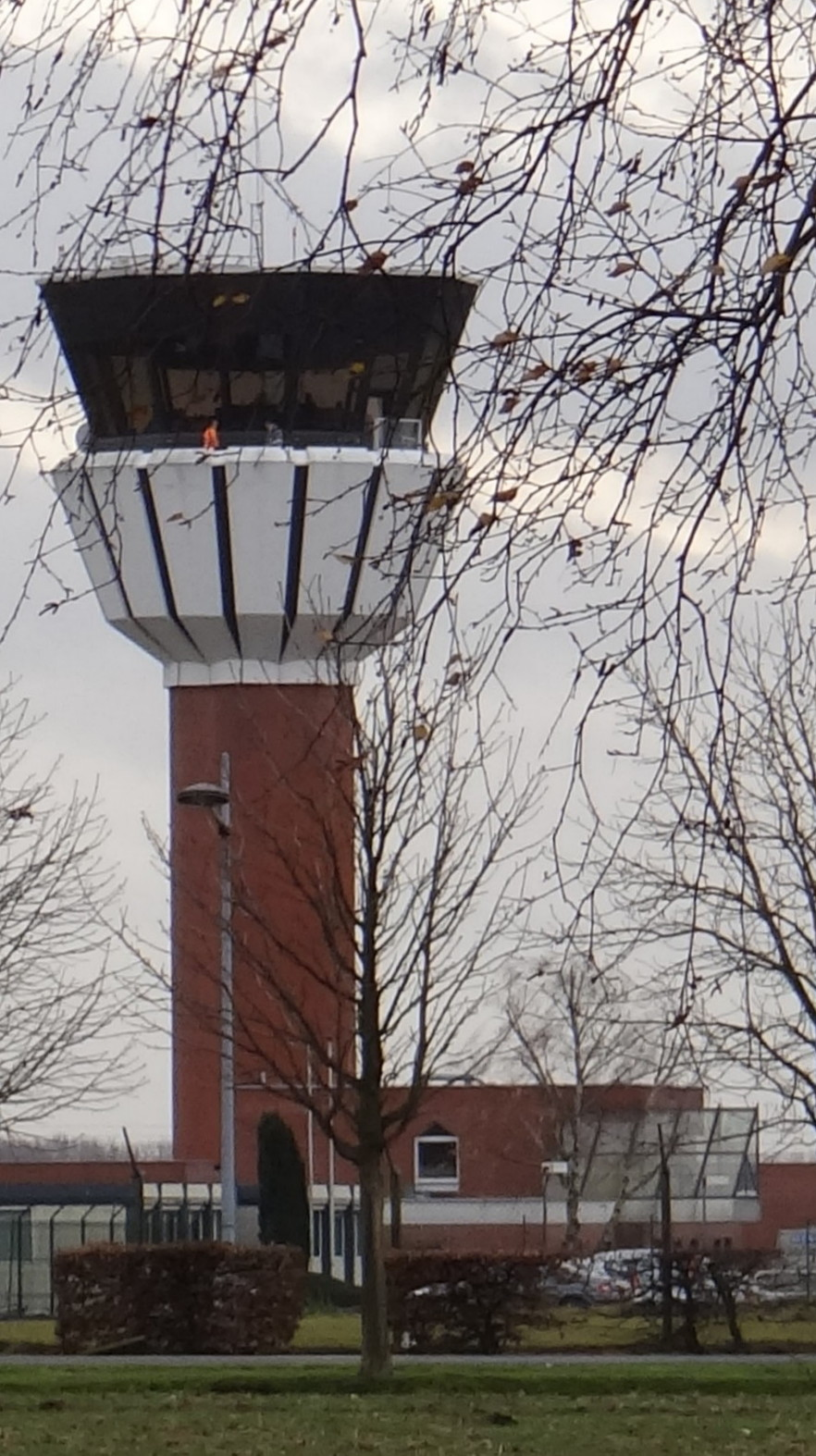 Aérodrome de Lille-Lesquin - tourde contrôle - LFQQ